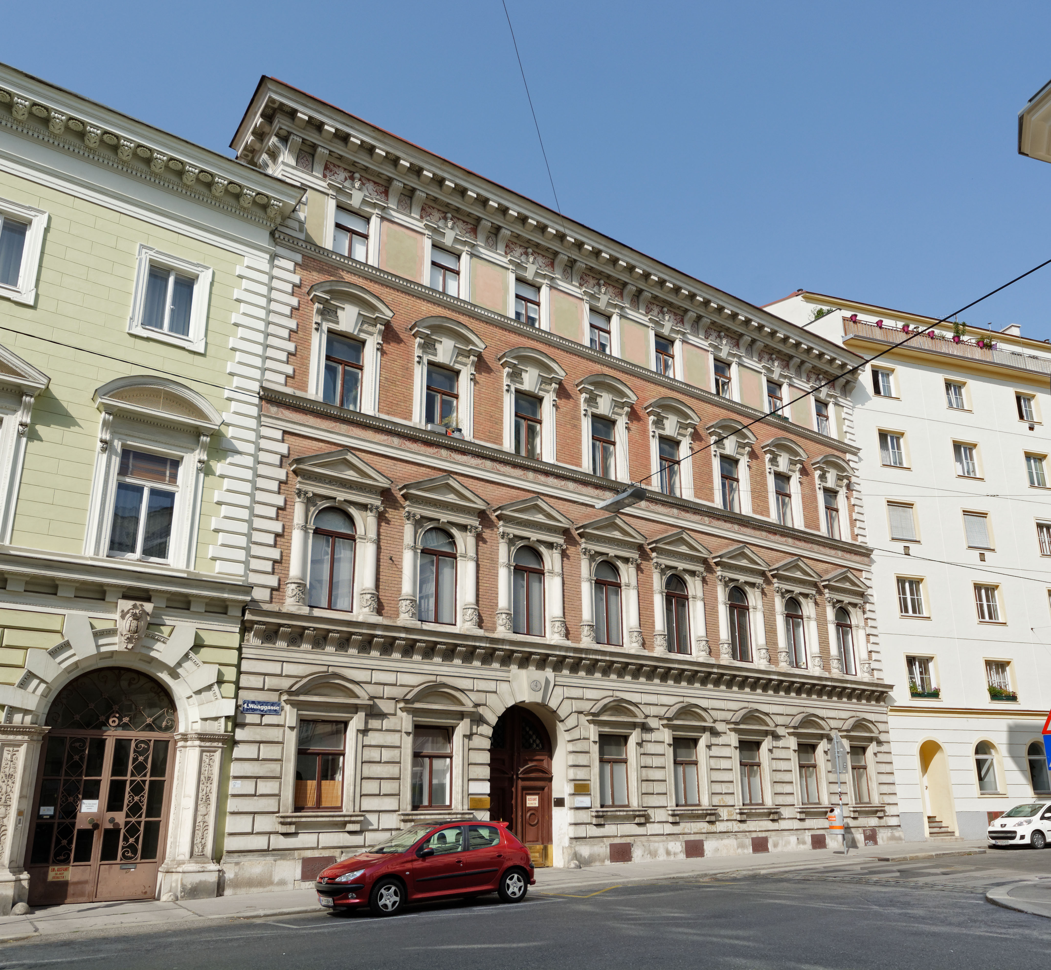 Former palais Colloredo - now a residential building - in Wieden, Vienna, Austria